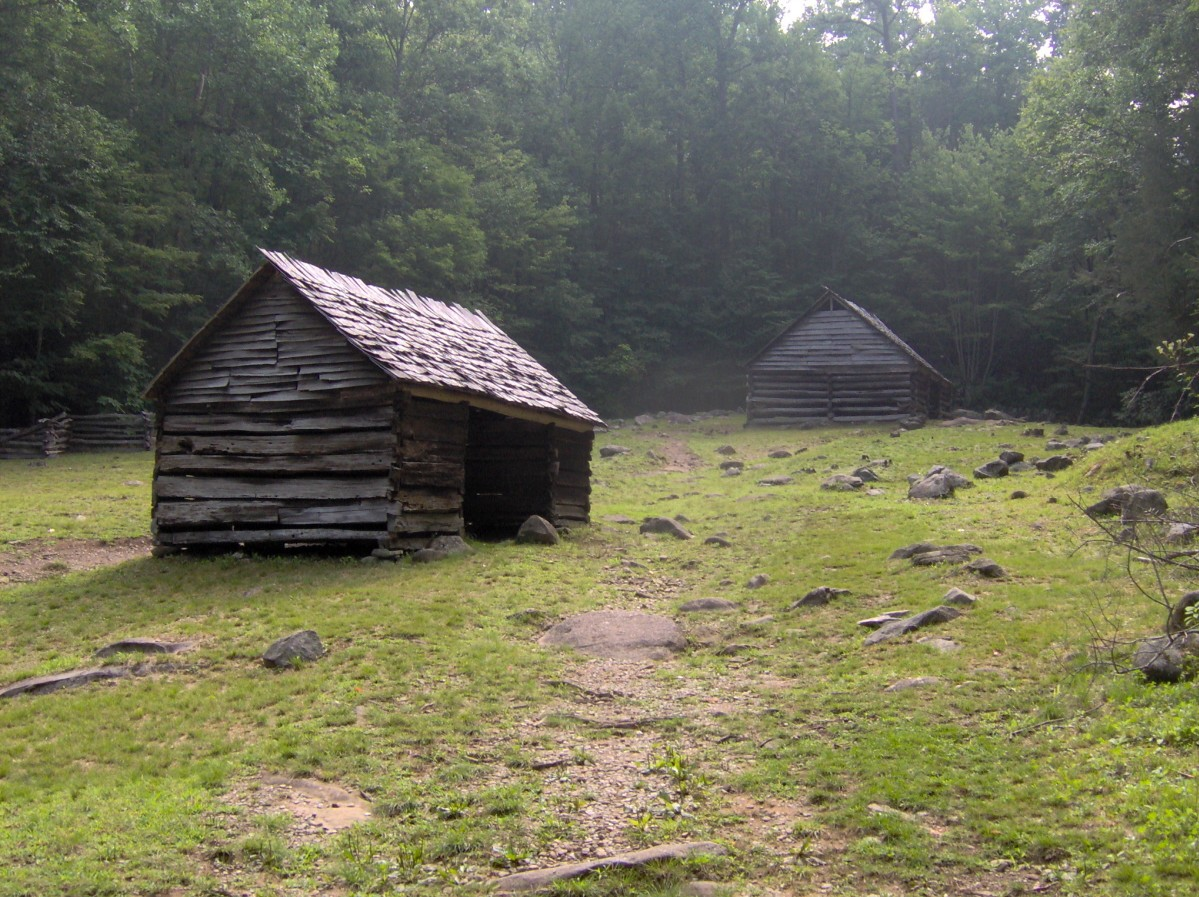 The Jim Bales Place in the Roaring Fork Historic District, GSMNP, in East Tennessee. The corn crib (foreground) and barn are all that remain of the farm of Caleb Bales (1839-1913) and his son, James Wesley Bales (1869-1939).